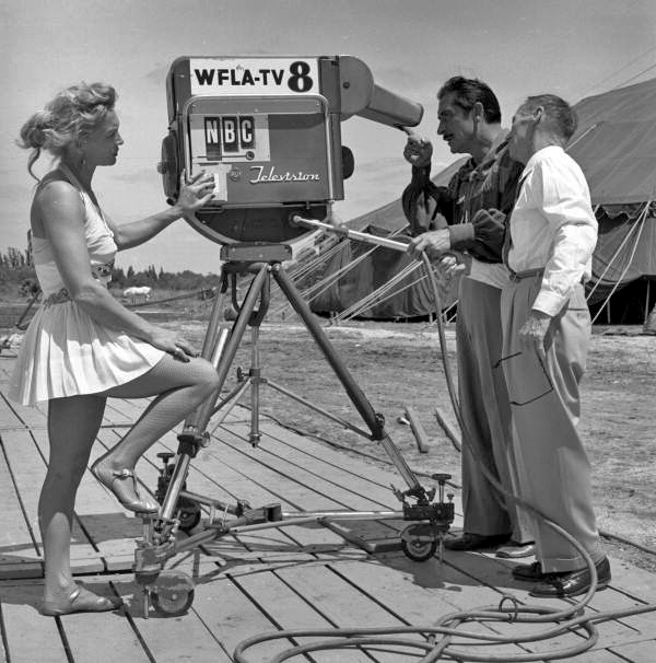 From right to left are: Ernesto "Papa" Cristiani, Daviso Cristiani, and Ortans Canestrelli Cristiani. They were looking at the new Kaleidoscope camera used to film this documentary about the Cristiani family. Rehearsals were for "Roll out the Sky," the story of the Cristiani Brothers Circus to be aired on "NBC Kaleidoscope" Sunday May 3. Accompanying note: "Rolleis". More metadata at